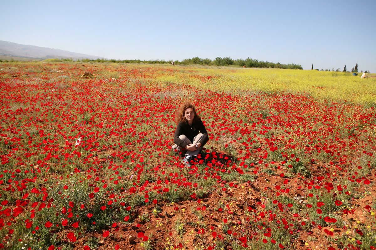 Barbara Abdeni Massaad in a field (fallow field?) with many flowering poppies (Papaver sp.) in Akkar, North of Lebanon